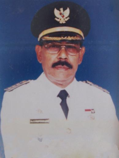 Walikota Banda Aceh